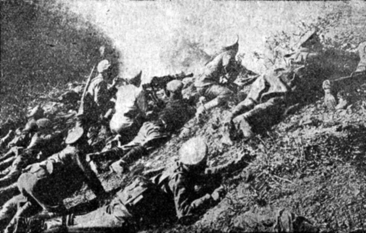 Bulgarian troops counterattack Jarebichna Peak in 1917